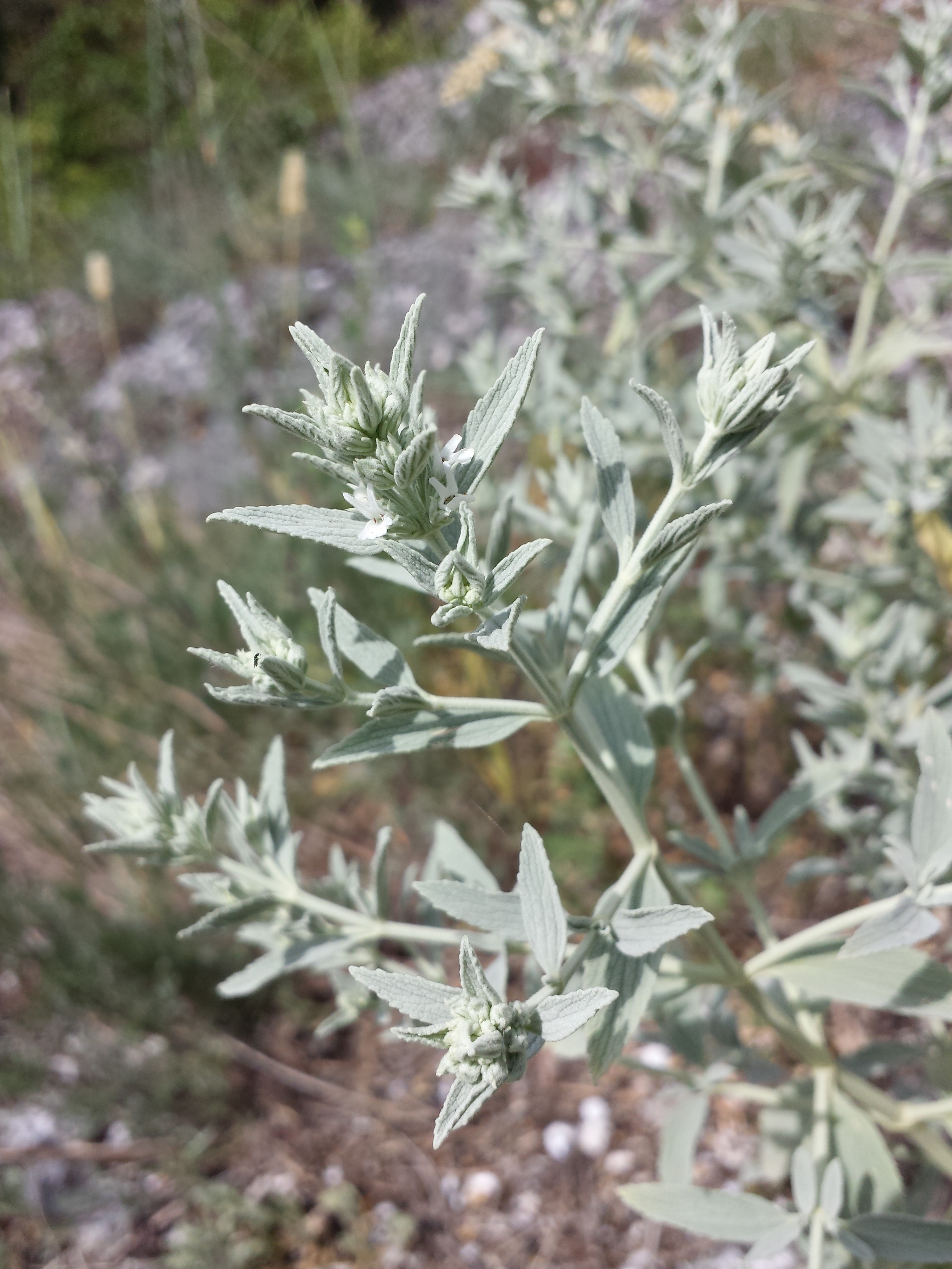 Florescence Taxon: Marrubium peregrinum (sensu Fischer et al. EfÖLS 2008 ISBN 978-3-85474-187-9; det. W. Adler 2014-06-21) Location: Staatzer Klippe, district Mistelbach, Lower Austria - ca. 300 m a.s.l. Habitat: rock steppe This media shows the natural monument in Lower Austria with the ID MI-052.